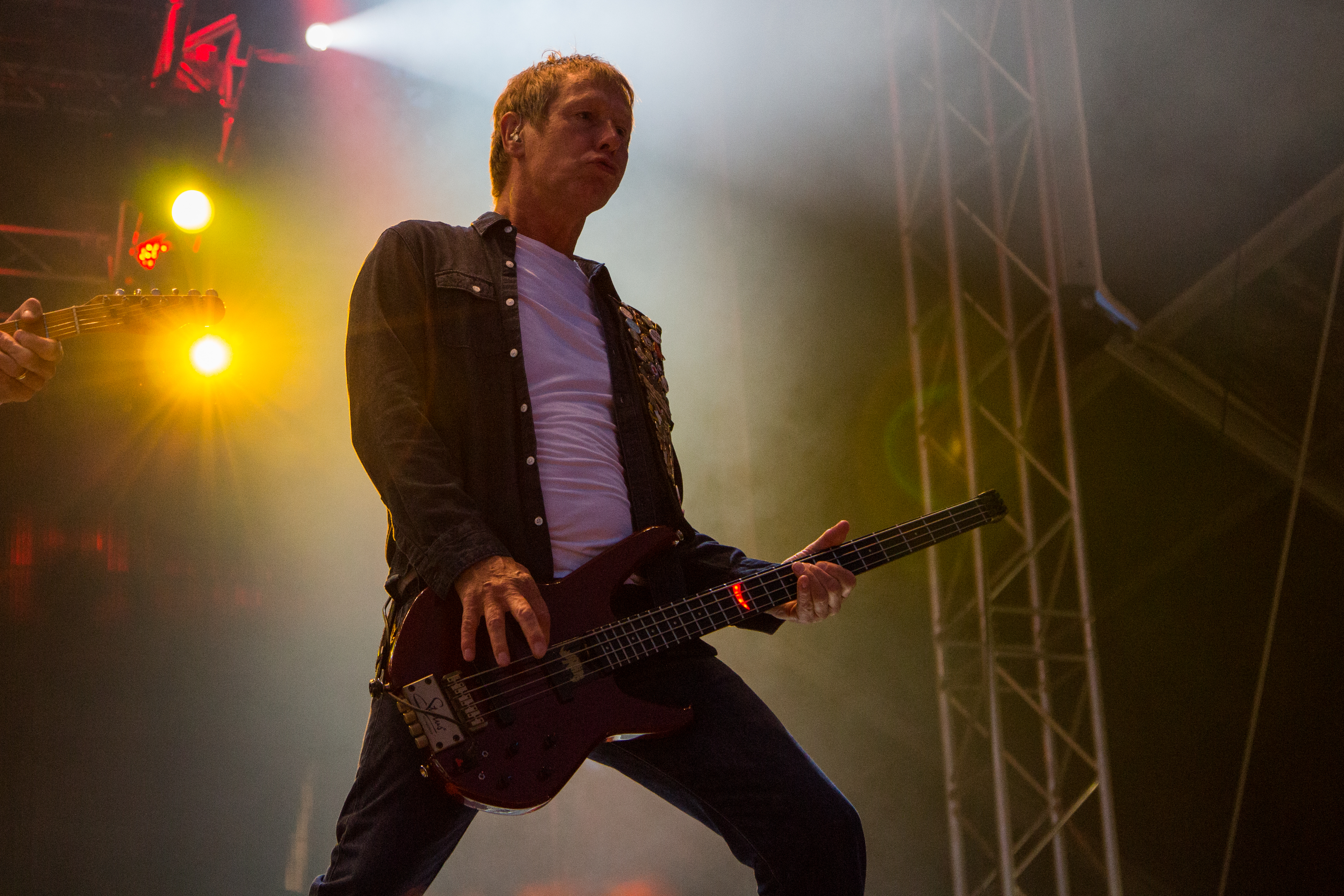 John 'Rhino' Edwards from Status Quo at the See-Rock Festival 2014